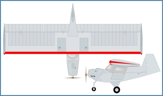 Briffaud GB6 Flying Wing